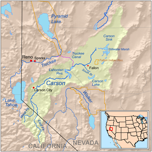 Map showing the Carson River drainage basin.